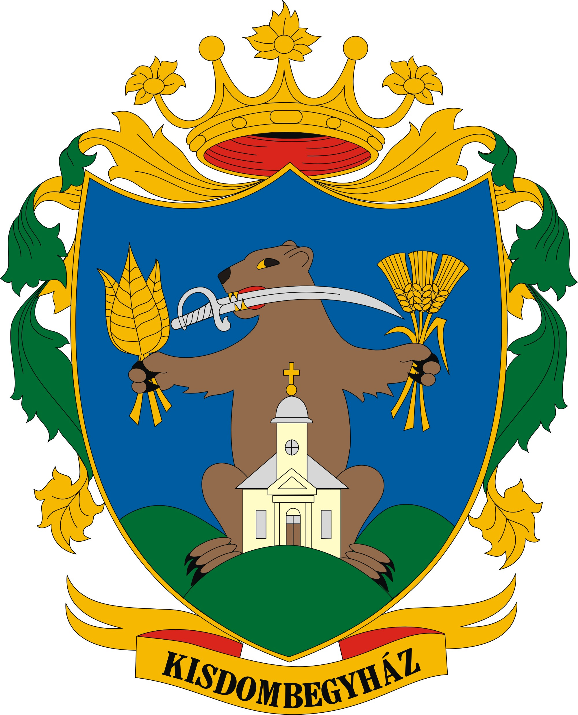 Coat of arms of Kisdombegyház, Hungary